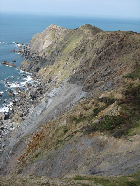 Higher Sharpnose Point The coastline to the south of Higher Sharpnose Point viewed here from the South West Coast Path.